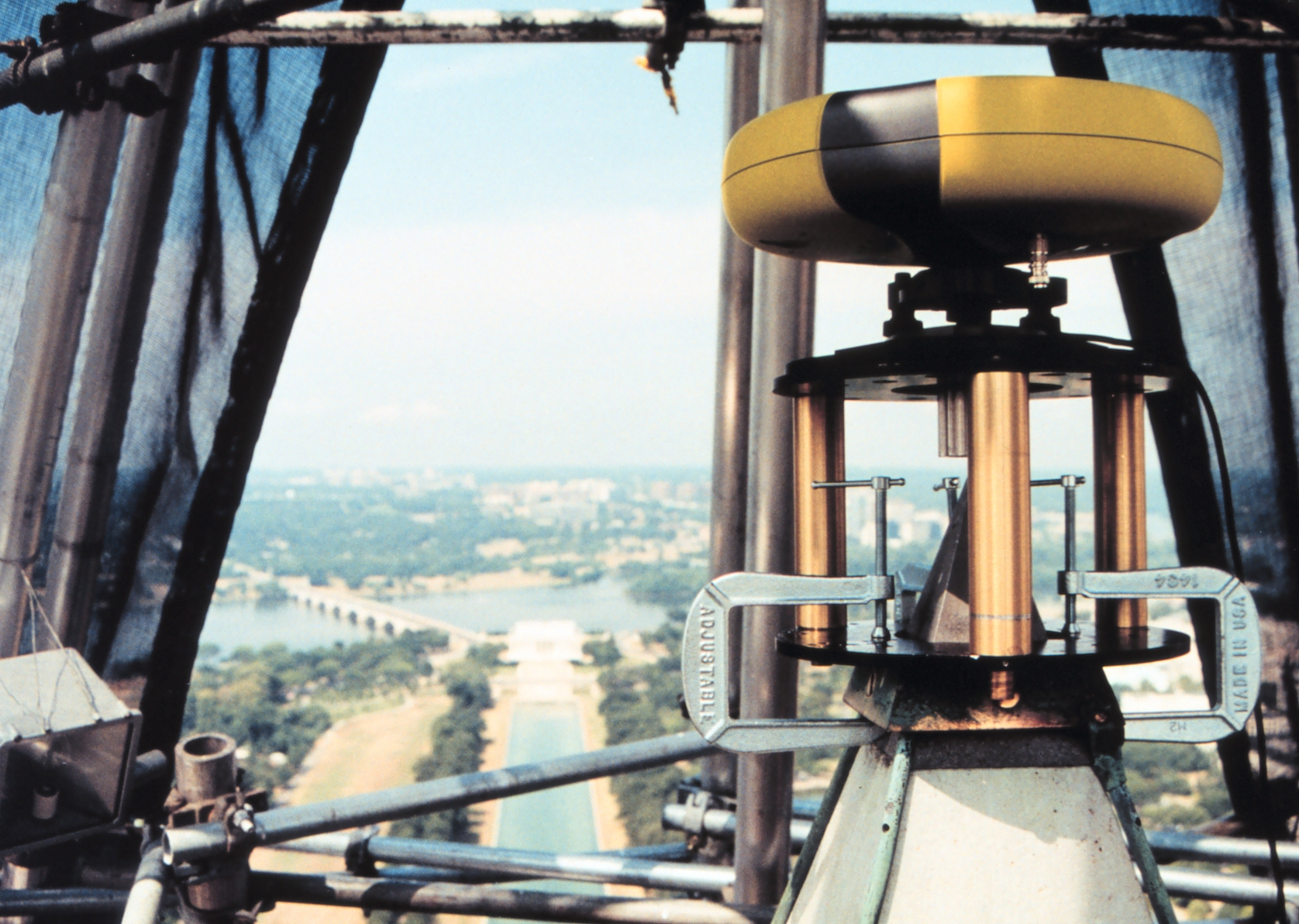 A device placed on top of the Washington Monument to measure the height as part of the Height Modernization. Description by NOAA: A Javad Positioning System antenna atop the Washington Monument. Looking west with the Lincoln Memorial in the background.